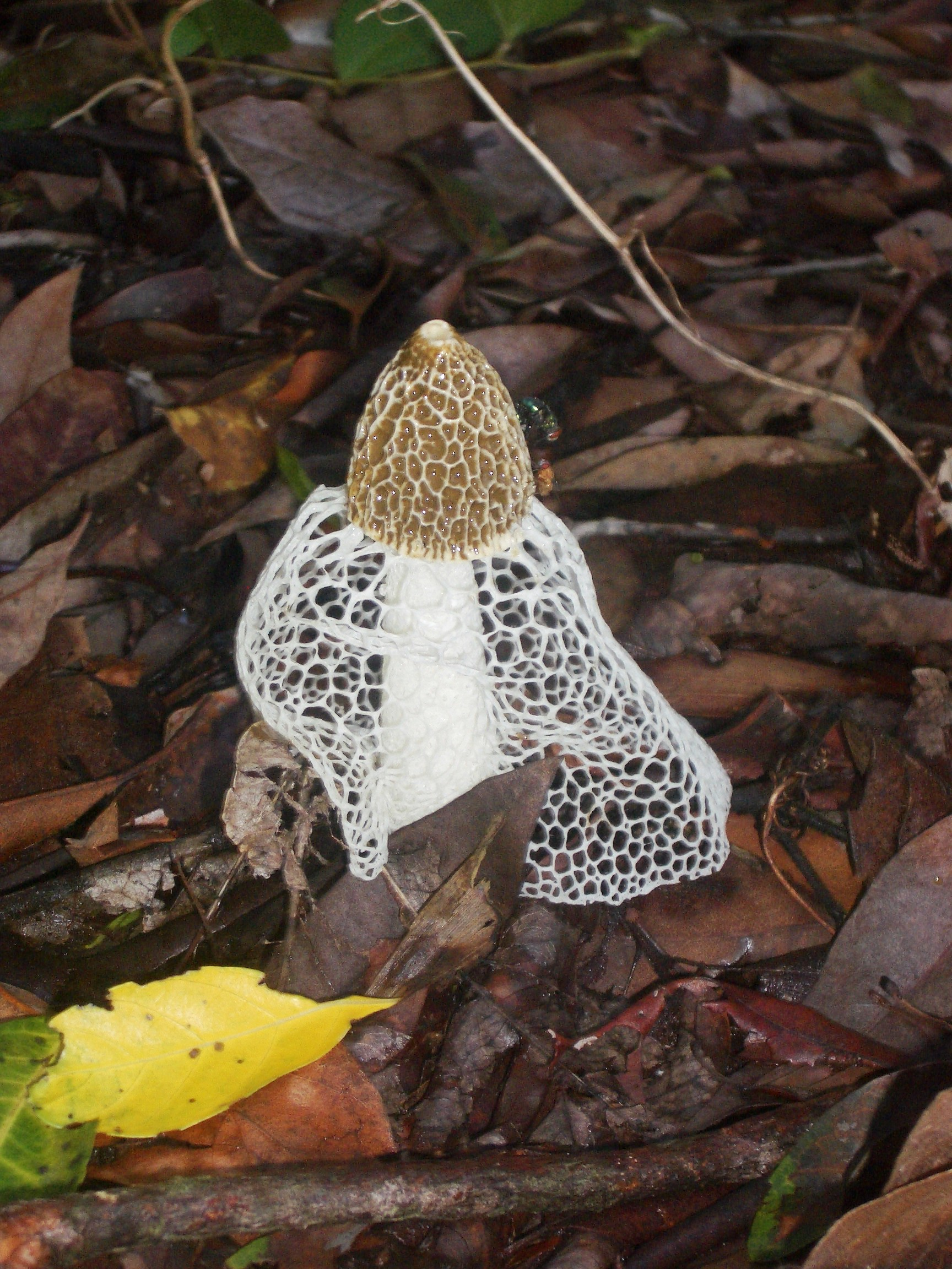 I took this photo in the backyard of my home outside Cooktown, Queensland in the far north of Australia in 2010